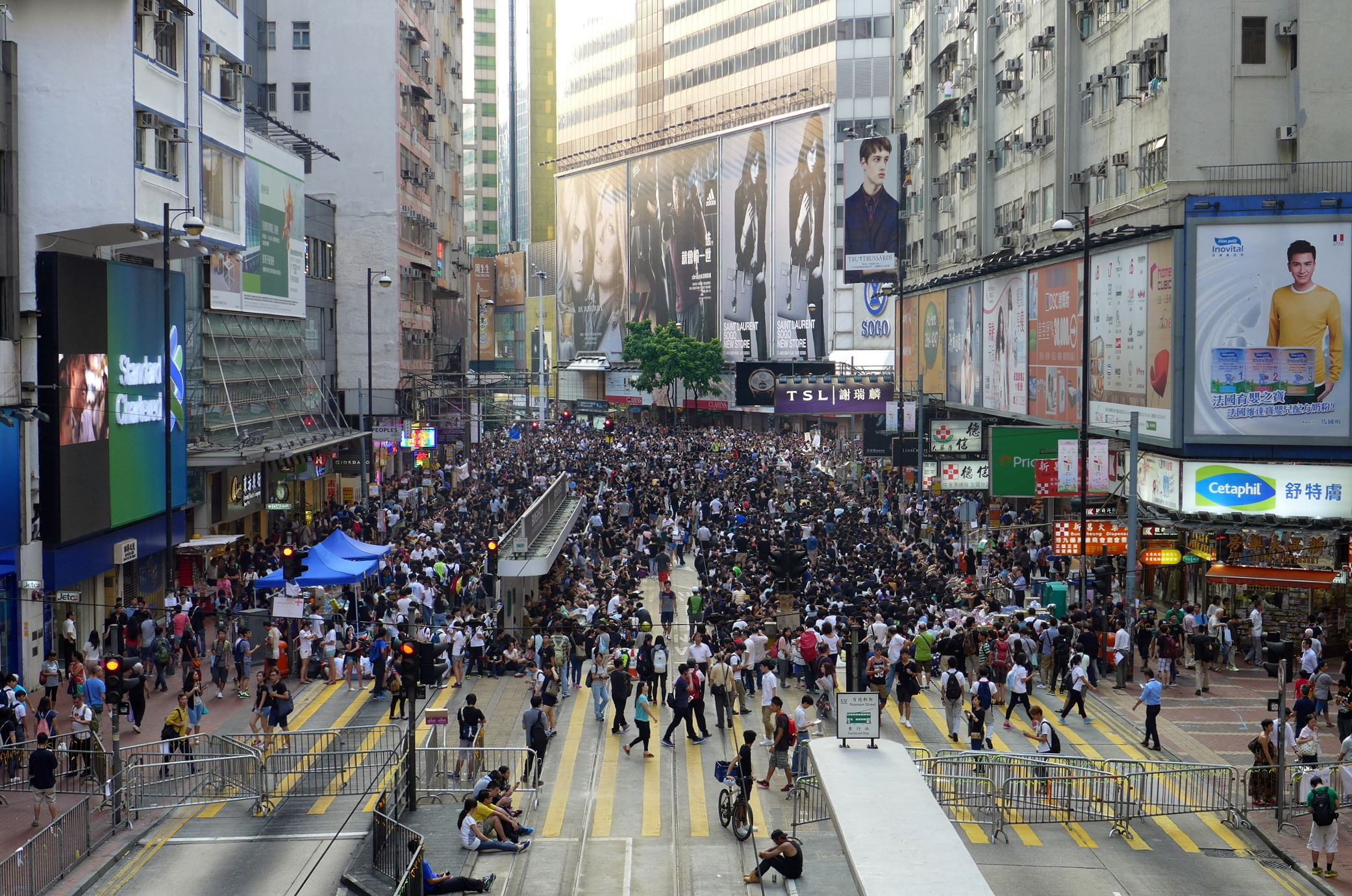 Occupy Central CWB Protesters 20140929